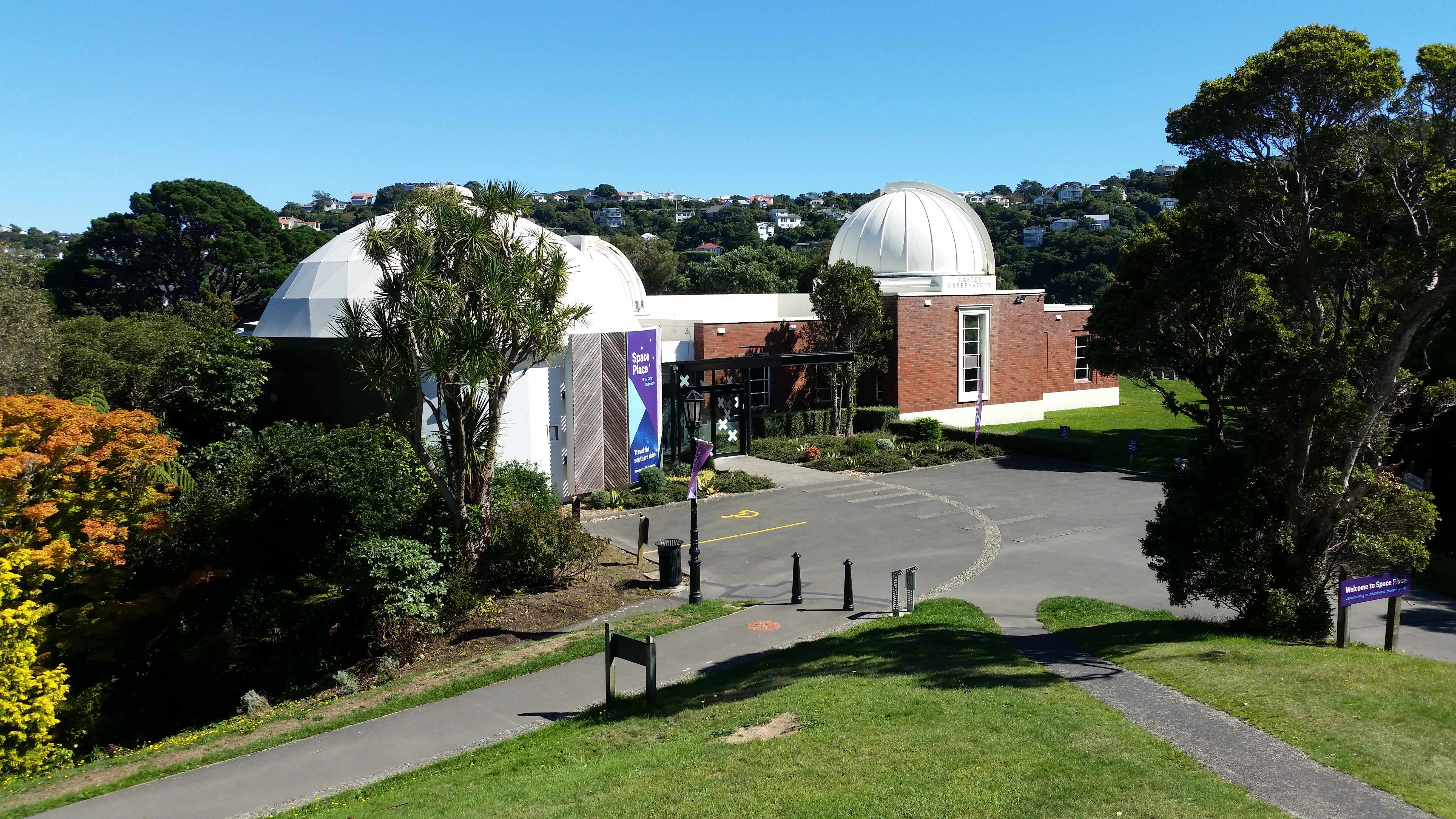 Wide shot of Space Place at Carter Observatory, located at the top of the Wellington Botanic Garden.